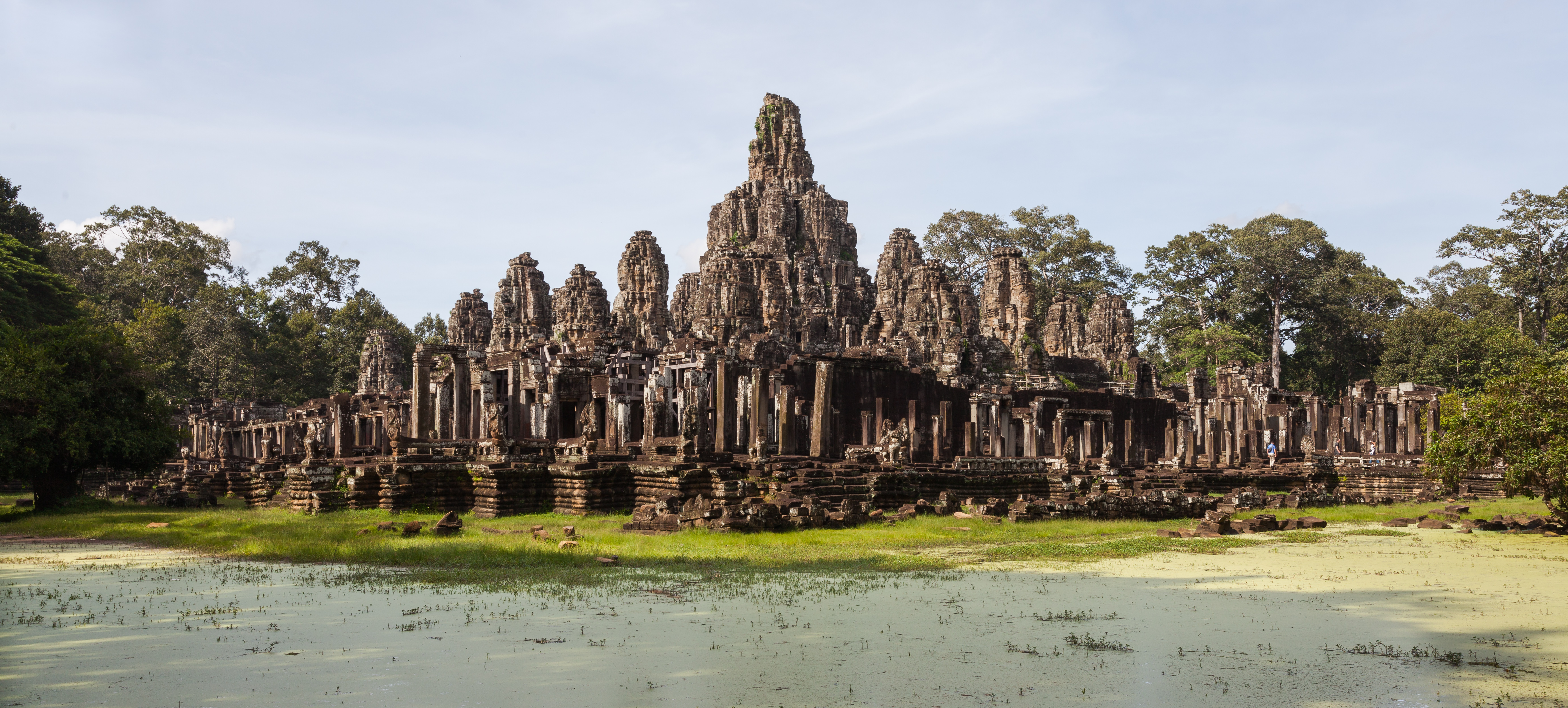 Bayon, Khmer temple constructed in the late 12th or early 13th century and located in the ancient city of Angkor, today Cambodia.